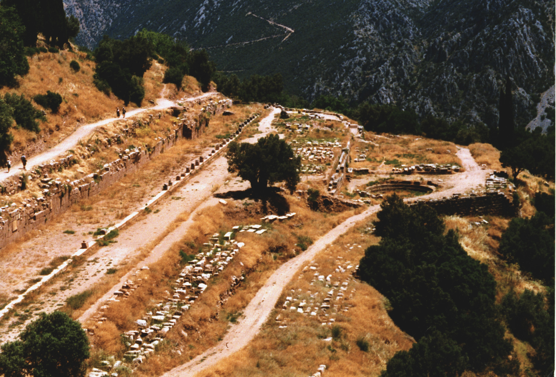 AWIB-ISAW: Delphi (VI) The gymnasium and palaestra at Delphi. by William III West copyright: William West III (used with permission) photographed place: Delphi Published by the Institute for the Study of the Ancient World as part of the Ancient World Image Bank (AWIB). Further information